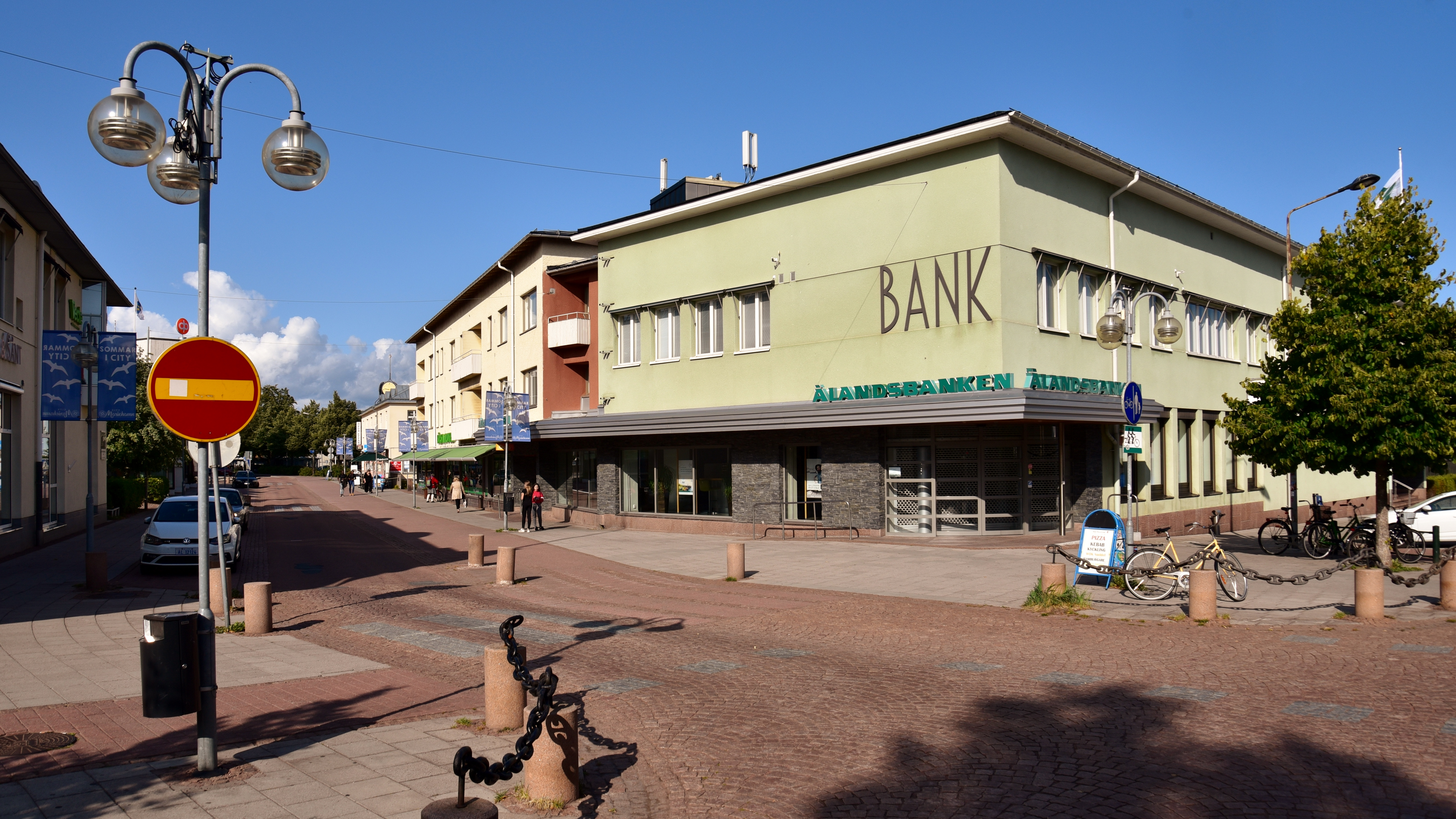 View of the Ålandsbanken building at Nygatan 2, Mariehamn, Åland Islands, Finland